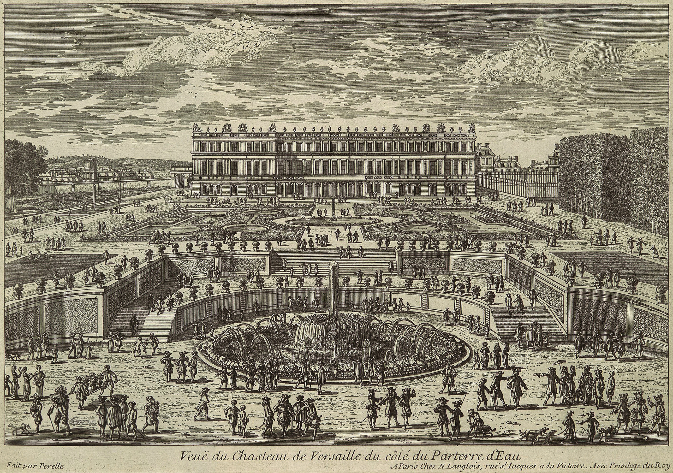 The garden facade of the Enveloppe of the Palace of Versailles is shown as completed around 1674 to the designs of Louis Le Vau. The facade was changed beginning around 1680, when the Hall of Mirrors was constructed. According to Hazlehurst (Gardens of Illusion, Vanderbilt University Press, 1980, p. 81) the design of the parterre d'eau shown in this print is likely a project that was never executed.